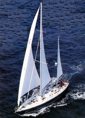 The C&C Custom 62 is a Canadian sailboat, that was designed by Robert W. Ball of C&C Design for long range cruising and first built in 1981. The design was built under Erich Bruckmann's supervision at the Custom Division of C&C Yachts in Canada, but it is now out of production. At least two examples were built. Jubilation: The first Custom 62 was built in a conventional aft cockpit layout with the wheel aft of the mizzen and a keel / centreboard arrangement allowing a 6.5 ft (2.0 m) draft with the centreboard up. She has a cherry-wood interior. She was renamed over the years as she changed owners, Djinn, Marauder, and now Lilia. Photo taken during her initial sailing trials in Lake Ontario in about 15 knots of wind, after being launched and commissioned in Bronte, Ontario